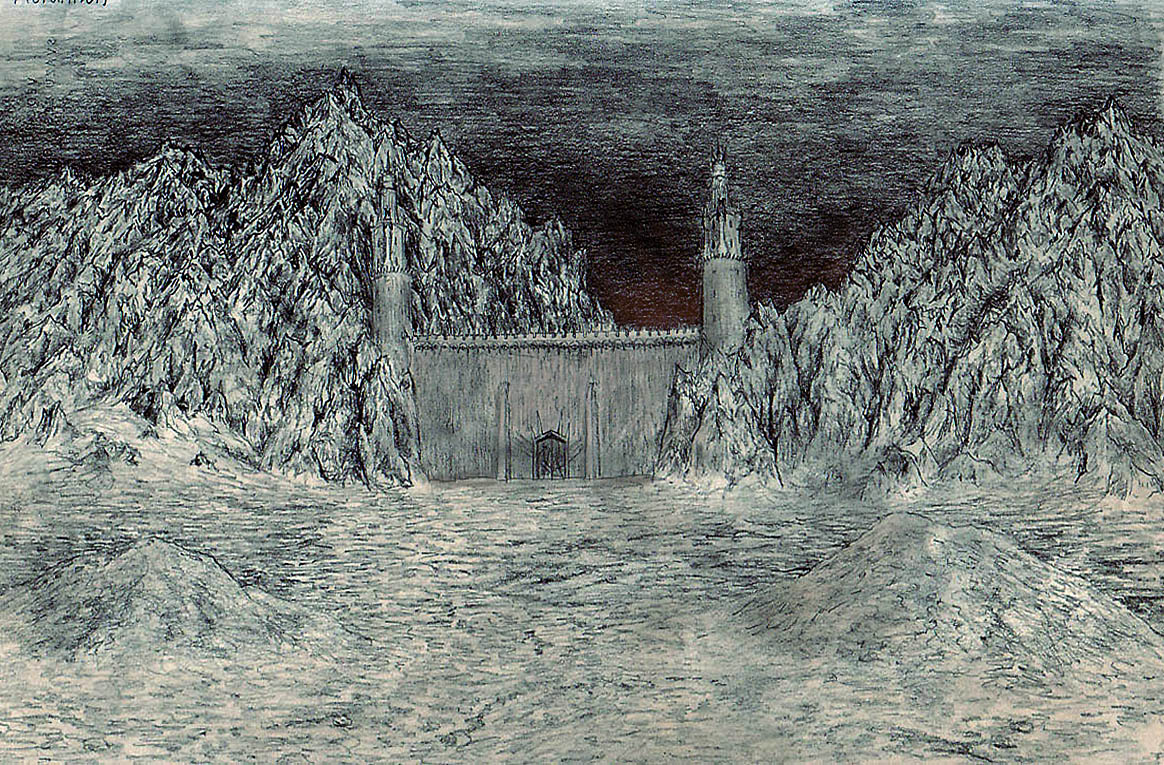 Morannon, the Black Gate of Mordor